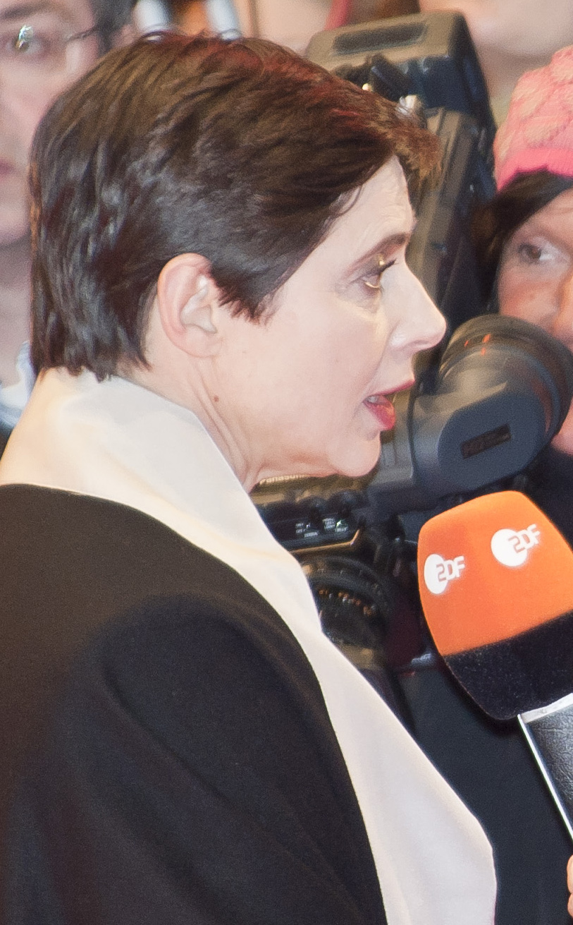 Isabella Rossellini, Italian actress, President of the internatinal jury of the Berlinale 2011, arriving at the premiere of True Grit